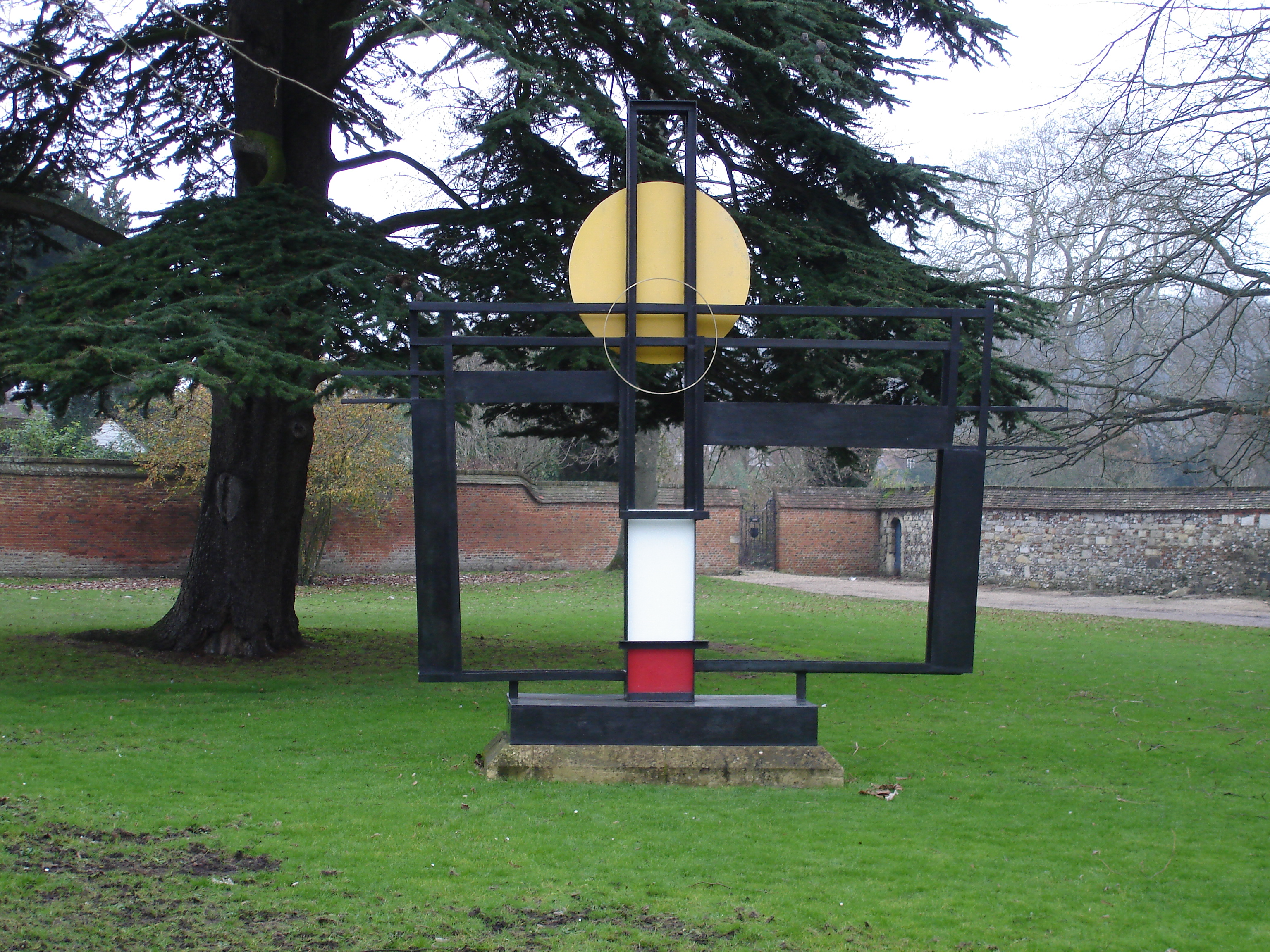 Suzanne Knights, my photo, xmas 2006Sculpture Construction Crucifixion Homage to Mondrian by Barbara Hepworth in the United Kingdom